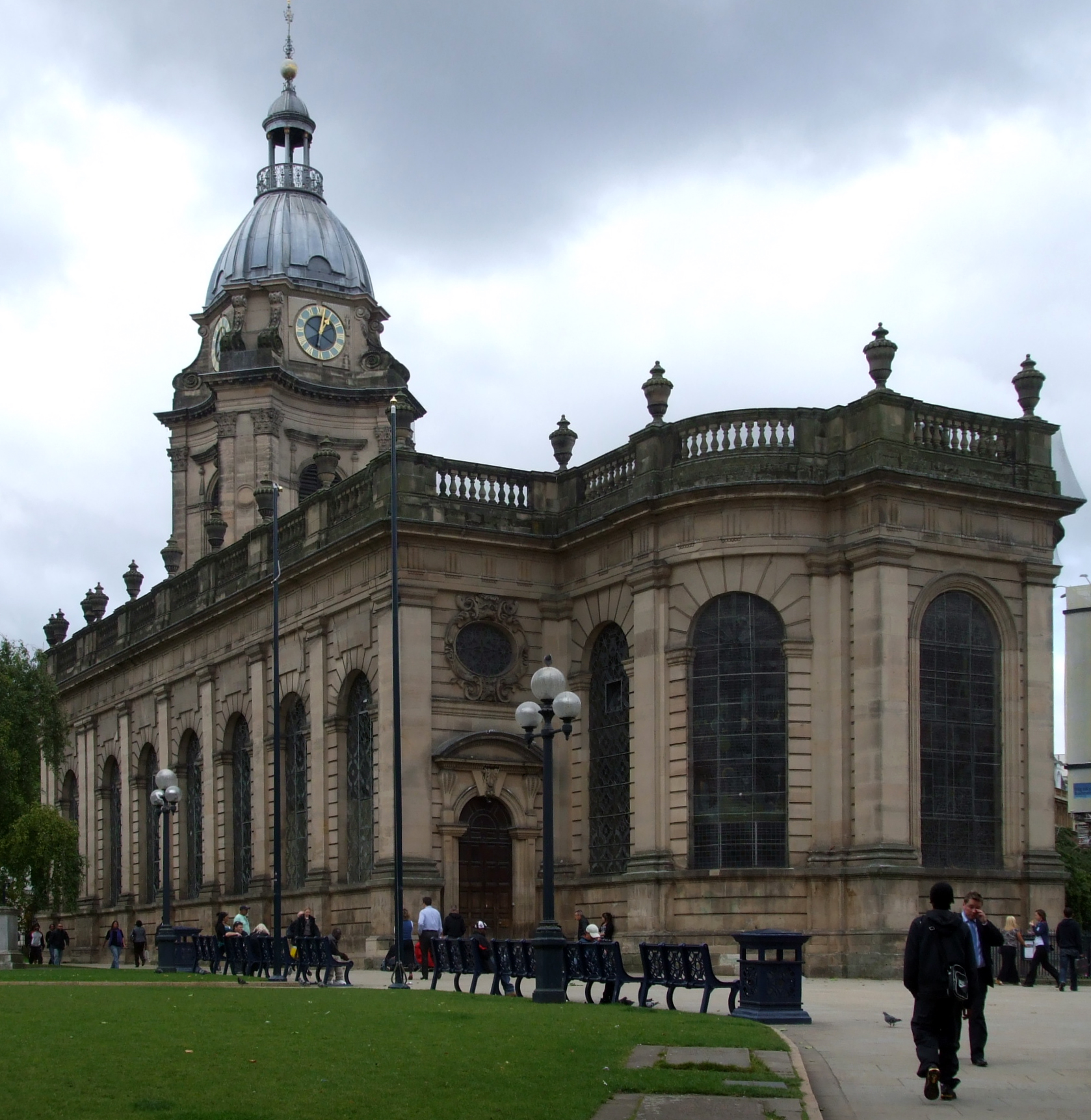 St Philip's Cathedral, Birmingham